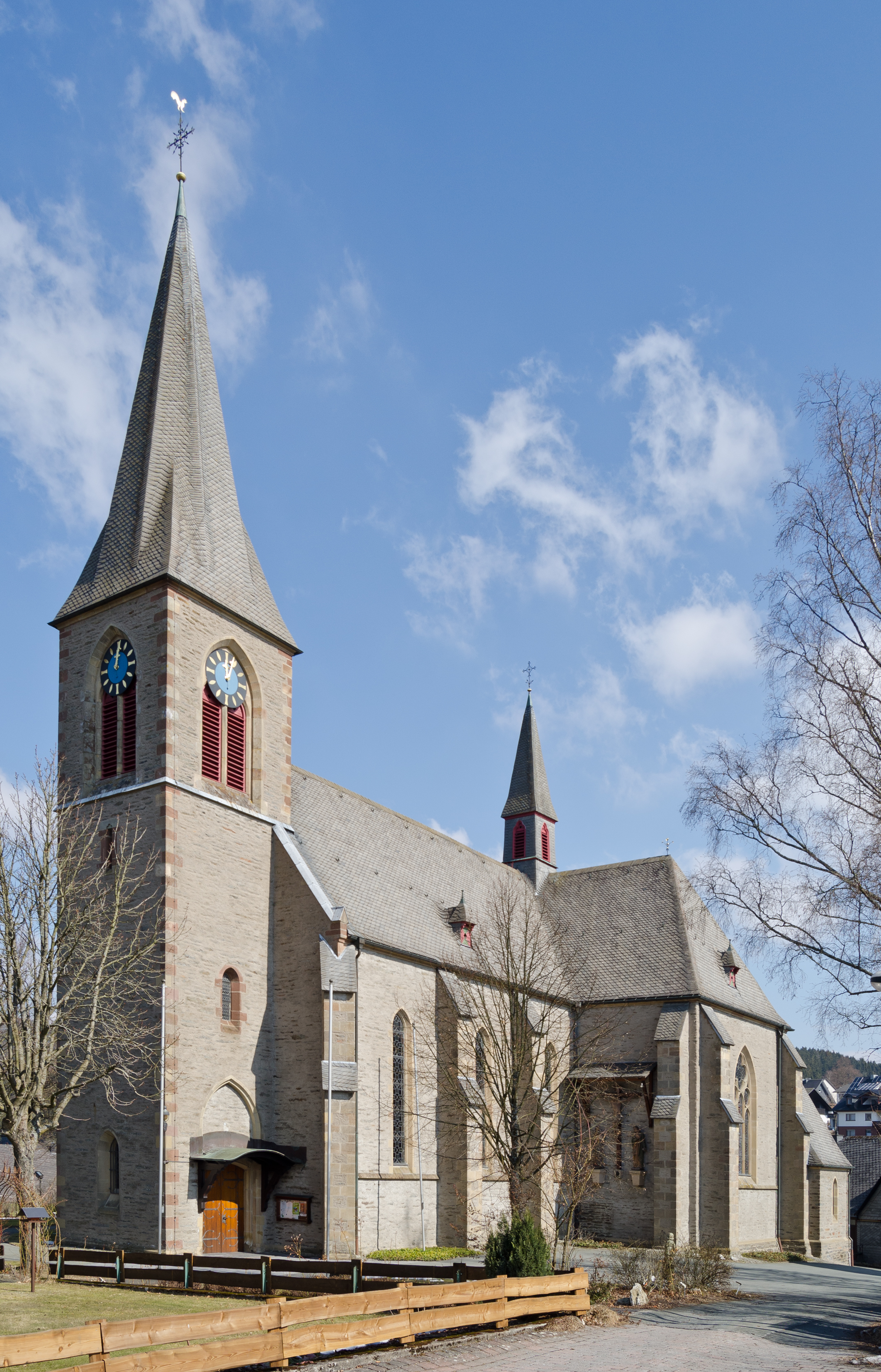 Olsberg (North Rhine-Westphalia, Germany) – district Assinghausen – Catholic Saint Catherine Church – exterior from the southwest This image shows a heritage building in Germany, located in the North Rhine-Westphalian city Olsberg (no. 34). This photograph was taken with a Nikon D7000